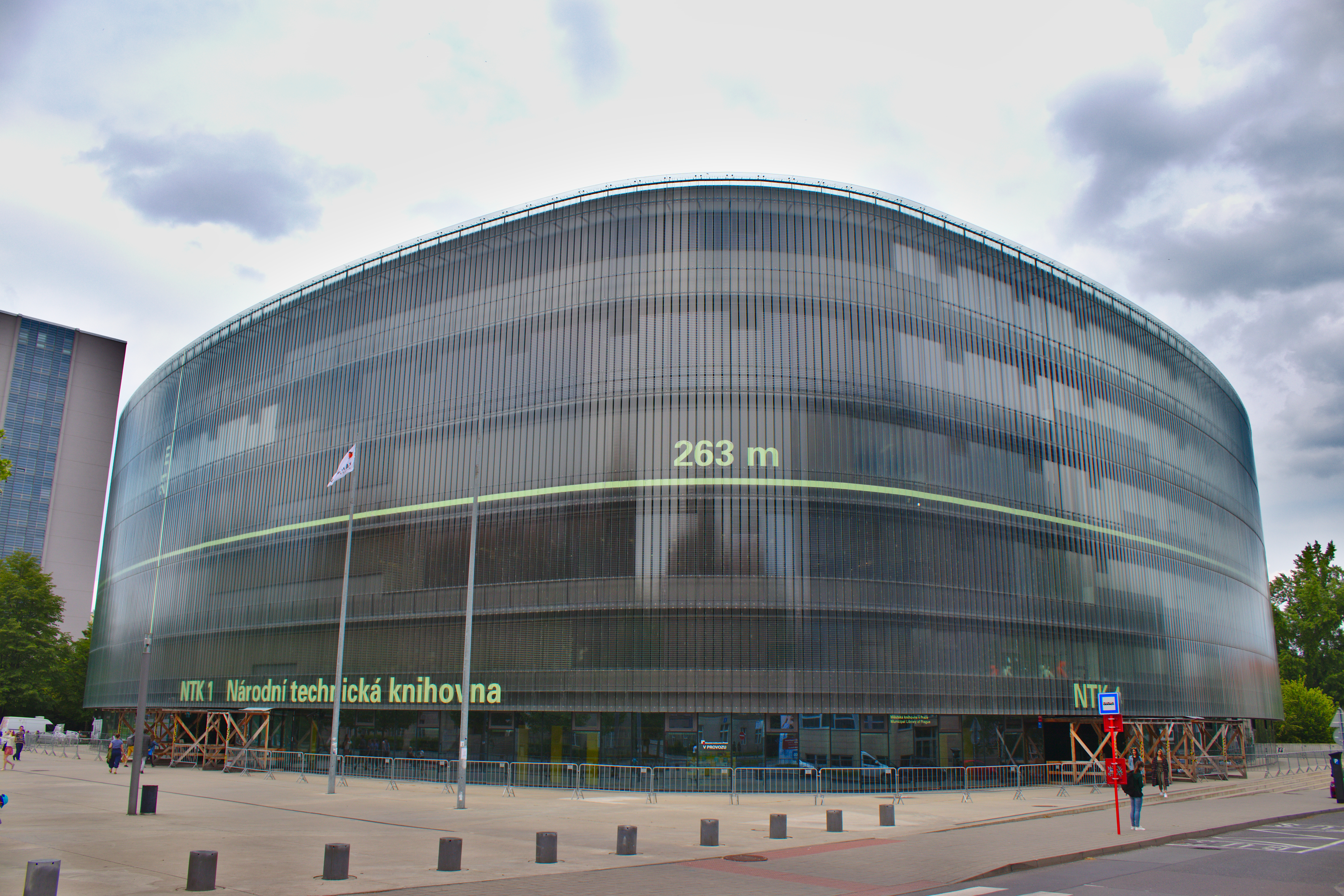 The National Library of Technology in Prague, Czechia